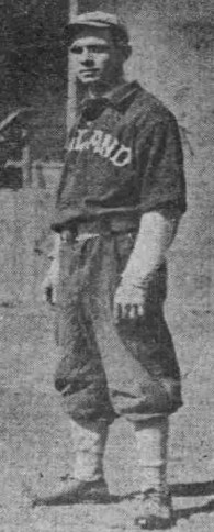 Professional baseball player Nig Perrine as a member of the Portland Beavers spring training roster. He did not make the team's regular season roster.